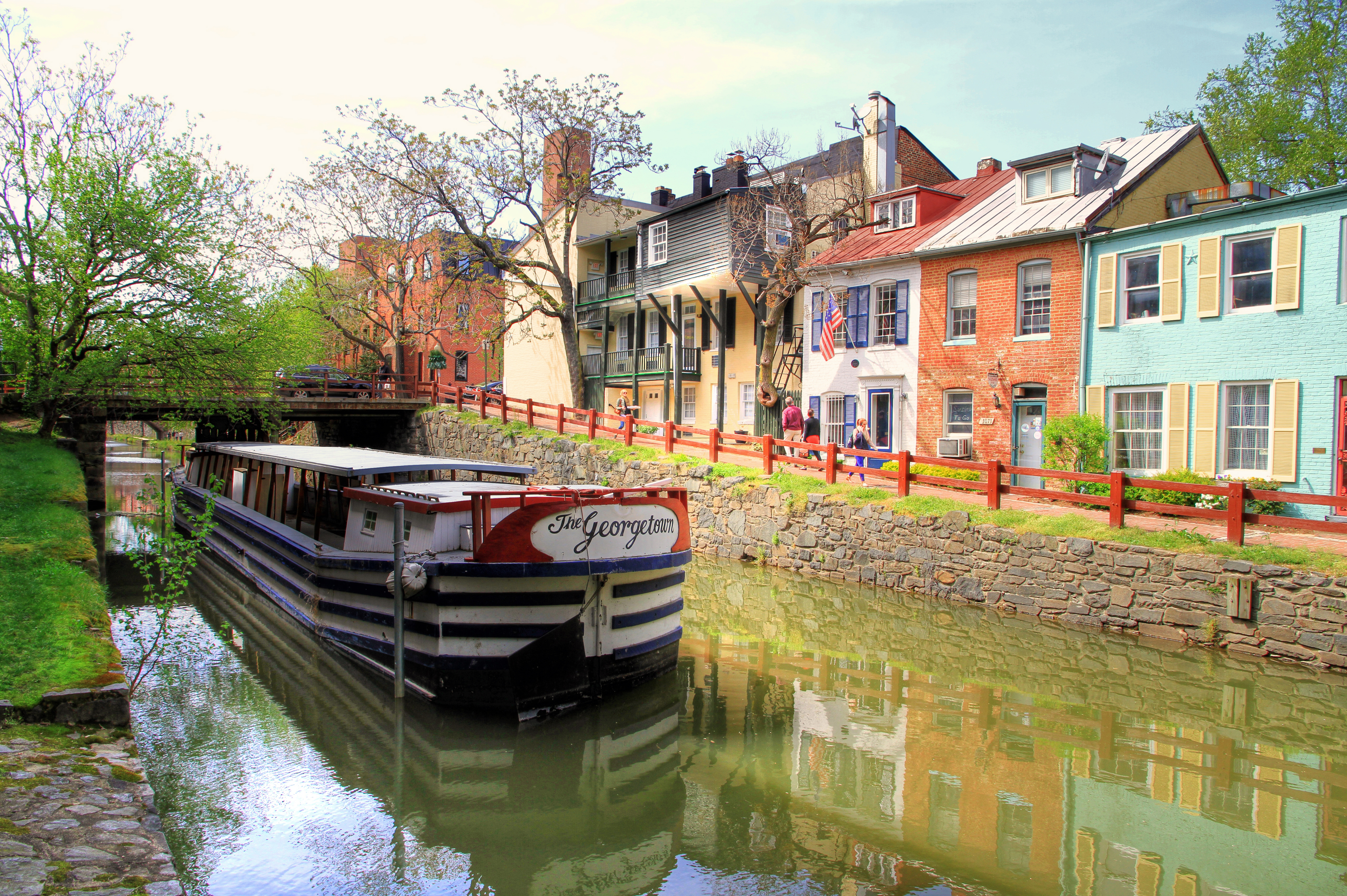 Tourist barge on the Chesapeake and Ohio Canal in Georgetown, Washington, DC